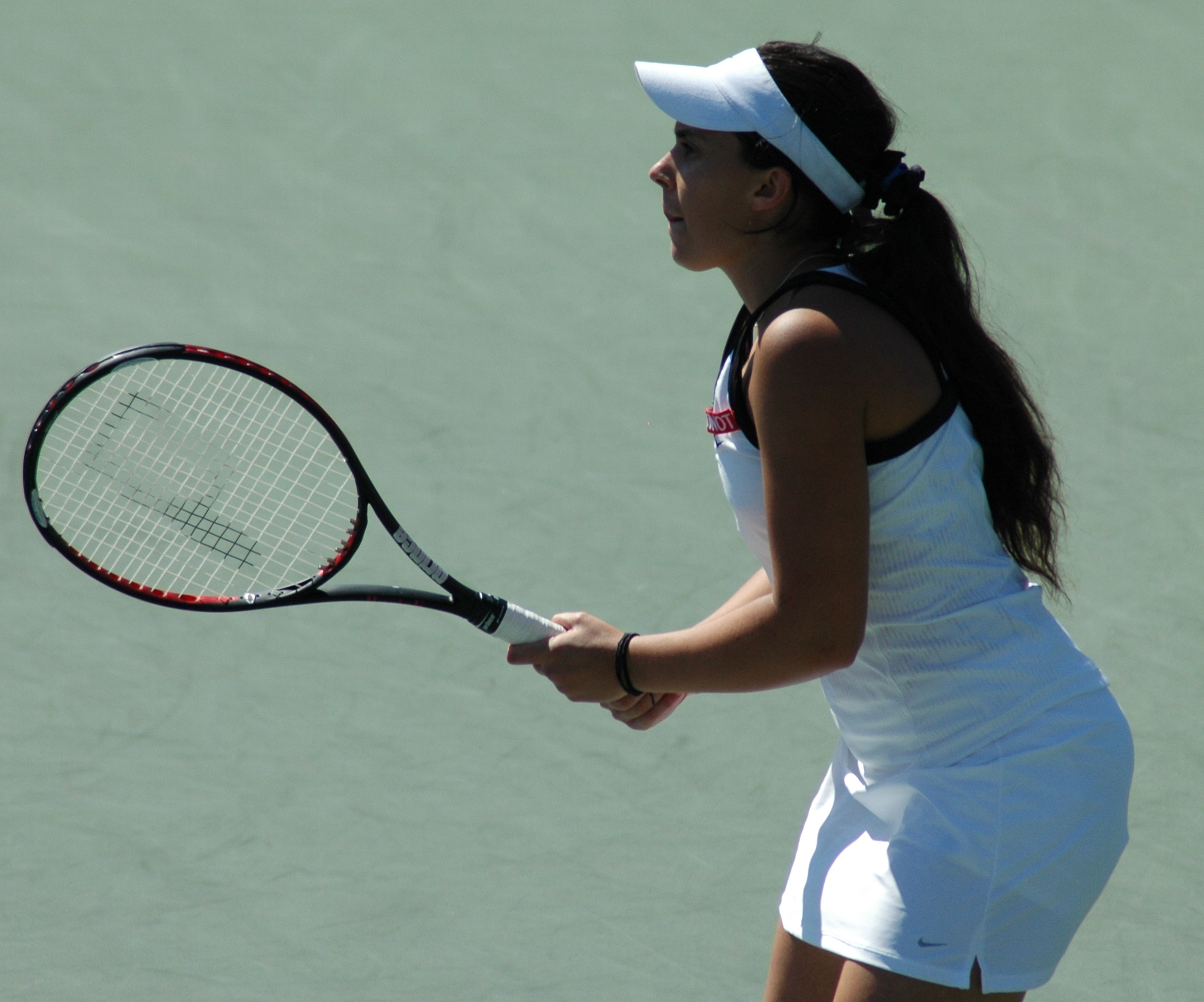 Marion Bartoli at the 2008 US Open